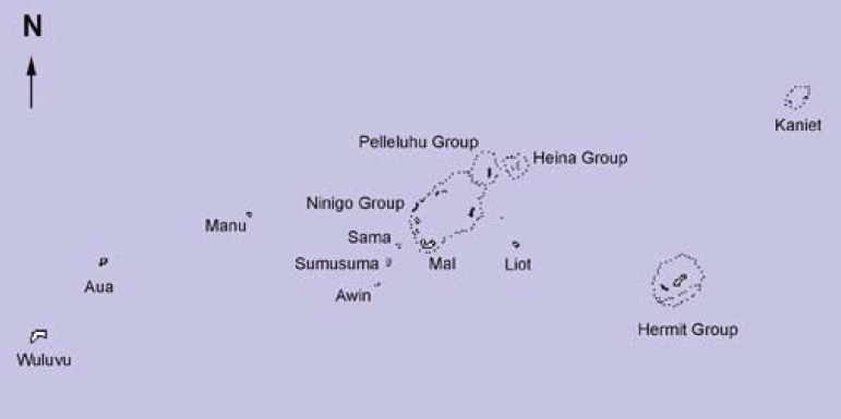 map of the Bismarck Archipelago - Western Islands (around Ninigo)